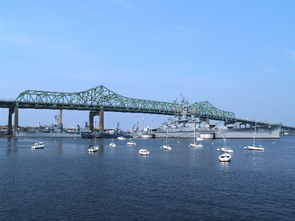 Battleship Cove, Fall River